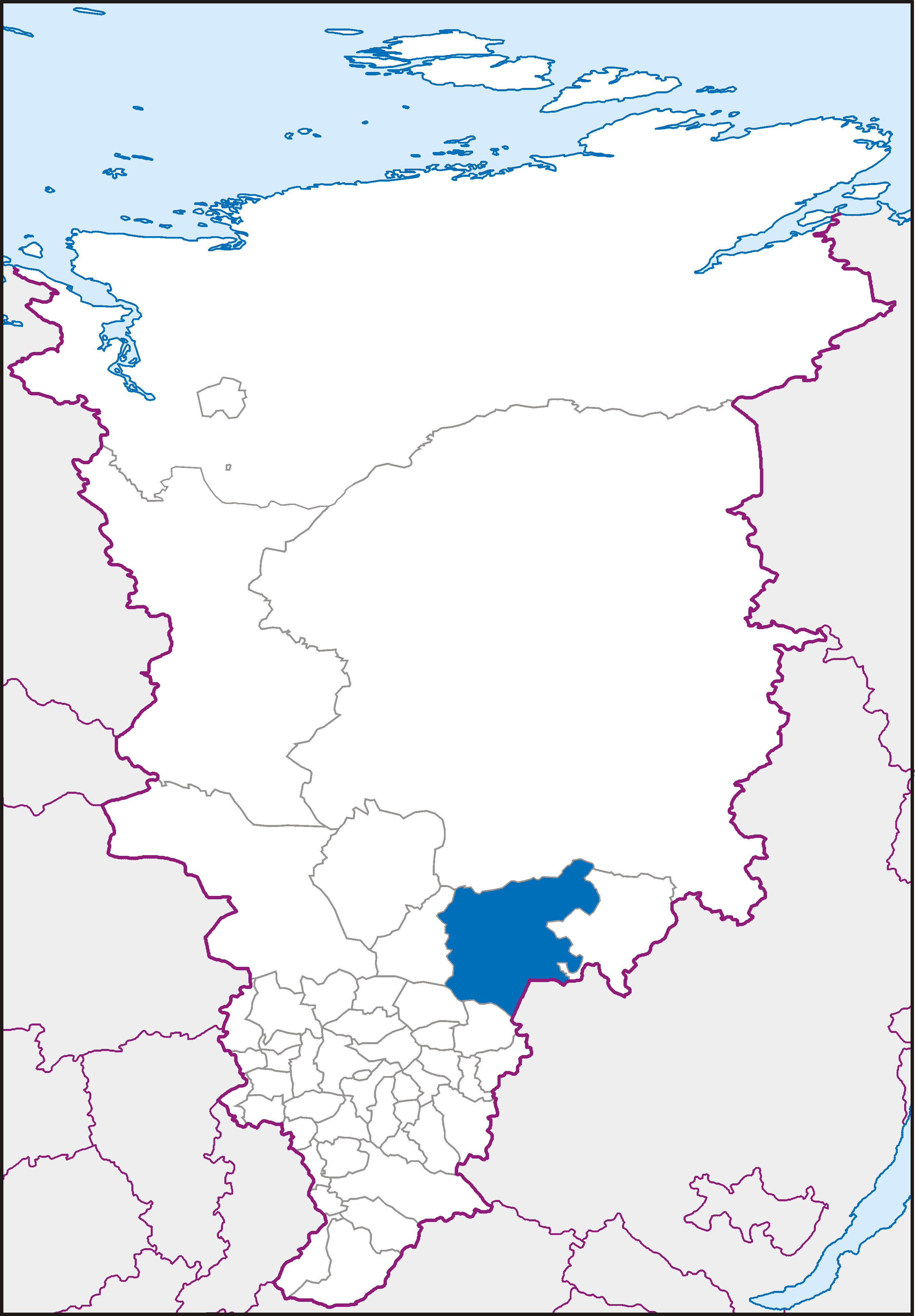 Map of Krasnoyarsk Krai in Albers Equal-Area Conic projection (Central Meridian = 95° E)